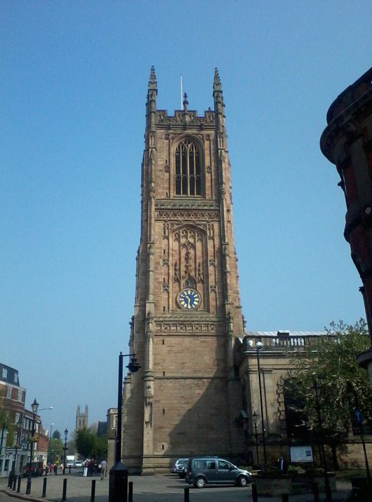 View of Derbyshire Catheral Facing Clock Tower